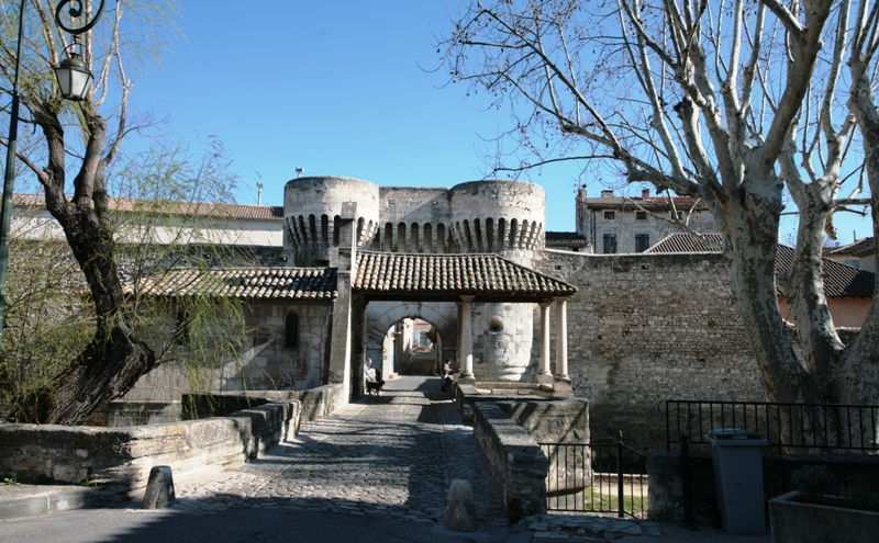 gate, chapel and bridge in the village of Pernes les fontaines, France